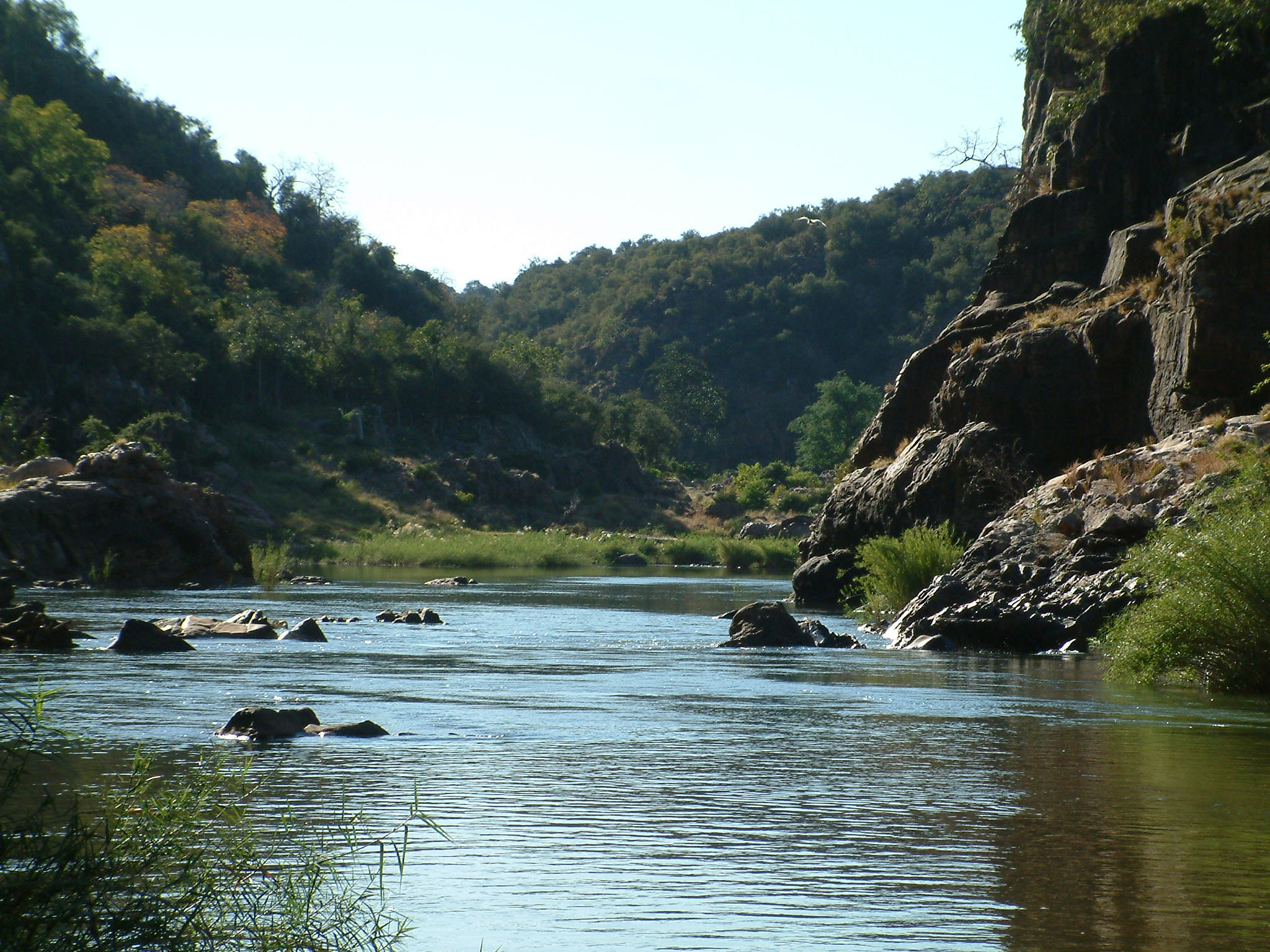 View of the Luvuvhu River, Makuleke area. Photo from Lee Berger's Lanner Gorge expedition.